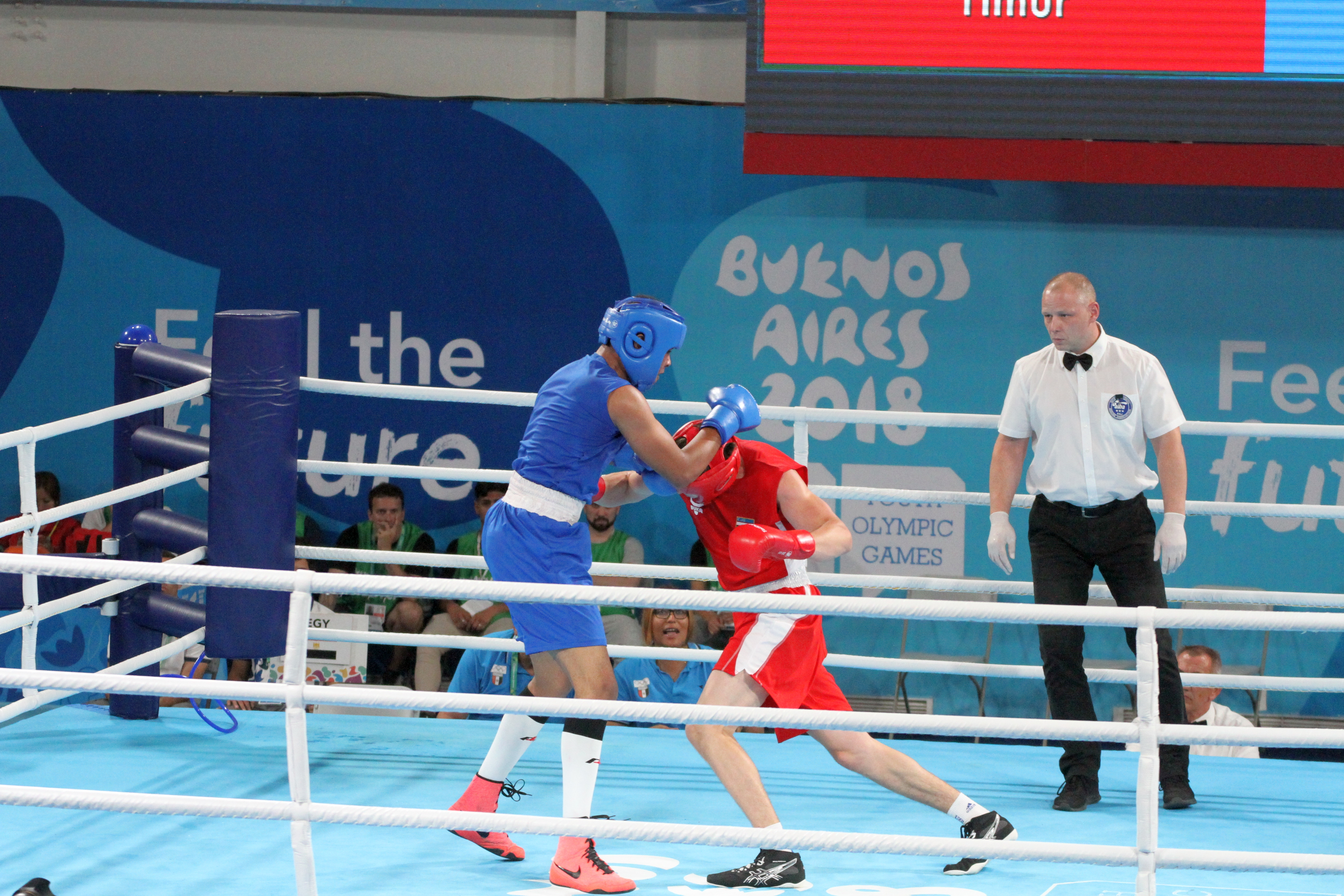 Boxing at the 2018 Summer Youth Olympics on 18 October 2018 – Boys' light heavyweight Bronze Medal Bout - Timur Merjanov (Uzbekistan, red) beats Youssef Ali Karar Ali (Egypt, blue) 5-0; Referee is Antonín Gaspar (Czech Republic).